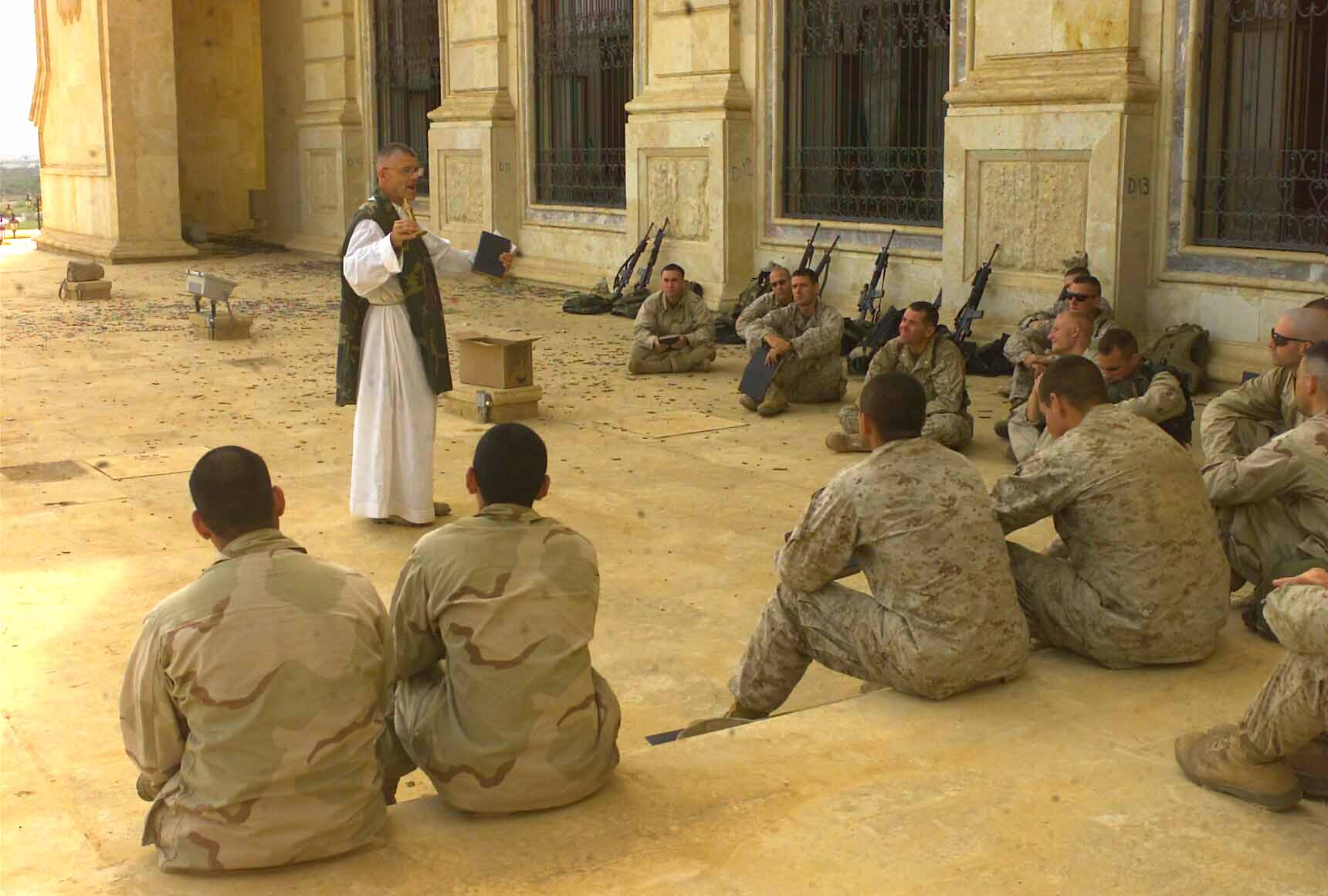 Central Command Area of Responsibility (Apr. 19, 2003) -- Father Bill Devine, the 7th Marines' Regiment Chaplain, speaks to U.S. Marines assigned to the 5th Marine Regiment during Catholic Mass at one of Saddam Hussein's palaces in Tikrit, Iraq.